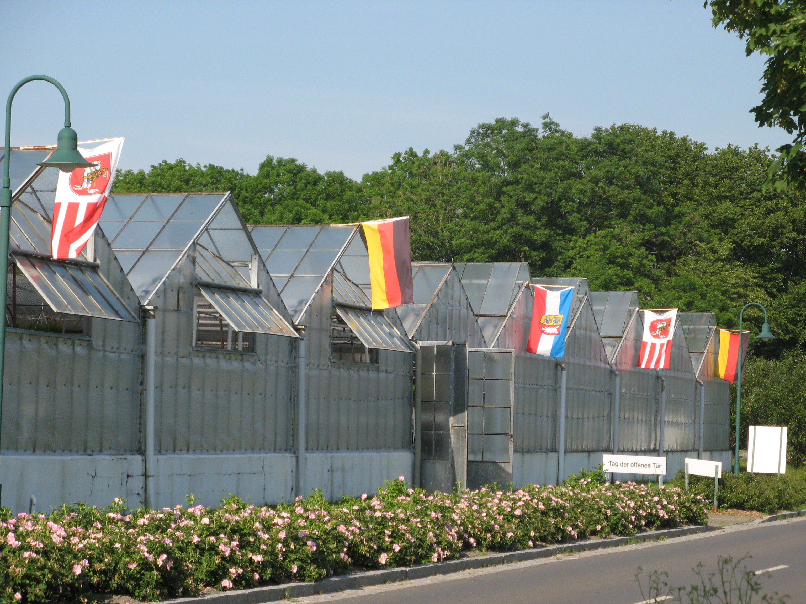 Greenhouse in Schülp, Dithmarschen.